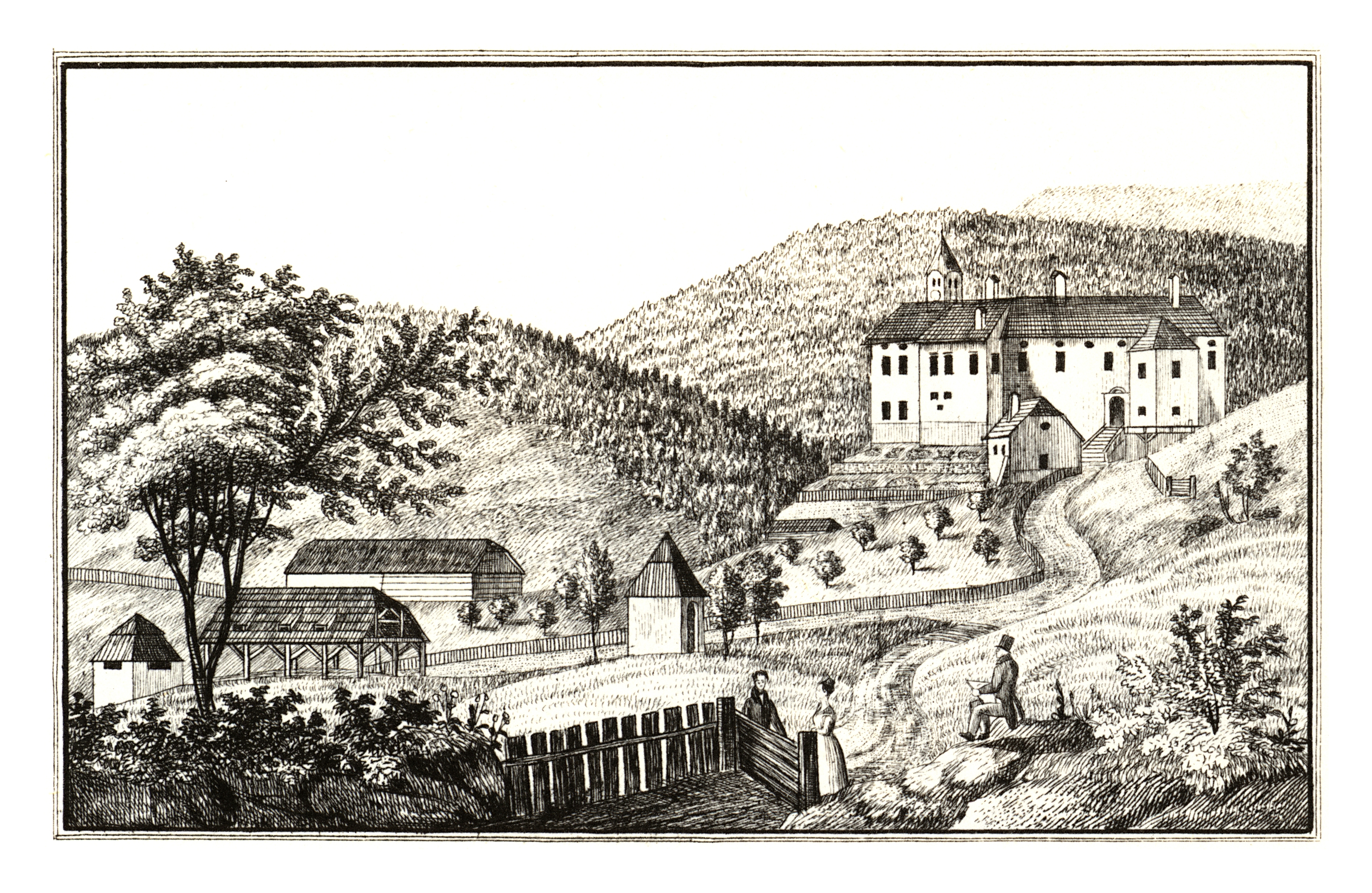 J. F. Kaiser - lithographirte Ansichten der Steyermärkischen Städte, Märkte und Schlösser, Graz 1824-1833 Joseph Franz Kaiser (1786–1859) Alternative names J. F. KaiserDescriptionAustrian printer and editorDate of birth/death 11 March 1786 19 September 1859Location of birth/death Graz (Styria) GrazAuthority control : Q1499963 VIAF: 30629353 ISNI: 0000 0000 3083 0153 LCCN: n87141671 GND: 129880159 NLP: A24960305 WorldCat creator QS:P170,Q1499963 . Scanprojekt Community Projektbudget 2012 This scan or this PDF-file was created within the GLAM-project Bookscanning, supported by Wikimedia Germany and Wikimedia Austria as a part of the community-project to capture books, documents and pictures which are not eligible to copyright or for which the copyright has expired. This document describes or depicts an object which is located in Austria today. Send requests for uncompressed scans to Hubertl. This work is in the public domain in its country of origin and other countries and areas where the copyright term is the author's life plus 100 years or fewer. You must also include a United States public domain tag to indicate why this work is in the public domain in the United States. This file has been identified as being free of known restrictions under copyright law, including all related and neighboring rights.